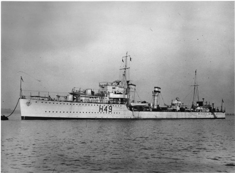 Royal Navy destroyer HMS Diana at a buoy. She was transferred to the Royal Canadian Navy as HMCS Margaree in September 1940, and was accidentally sunk in a collision one month later.